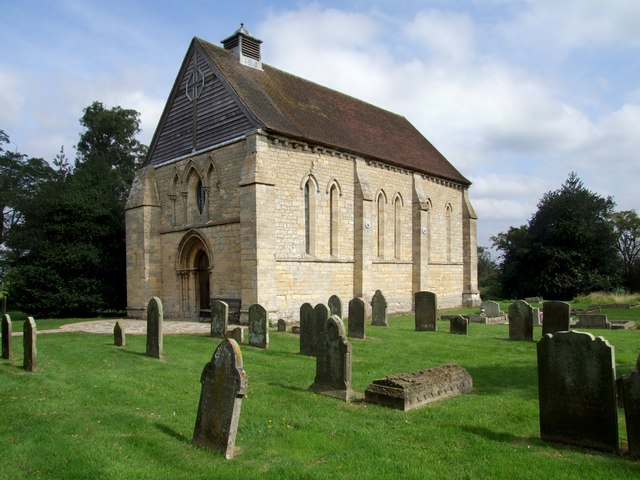 The Church of St Leonard, Kirkstead The church stands just inside the boundary of the ruins of Kirkstead Abbey. The tiny chapel, measuring 42ft x 19ft, may well have been built as a chantry chapel in memory of Robert de Tattershall who died in 1212. St Leonard’s is as built in the first years of the 13th century, except for the roof. At the intersection of the ceiling ribs are splendid bosses carved with foliage and the Lamb of God. Part of the chancel screen is probably the same date as the building and the earliest in existence. The narrow west door and the newel stair are original. In the chancel is part of a mutilated piscina and an aumbry in the north wall.